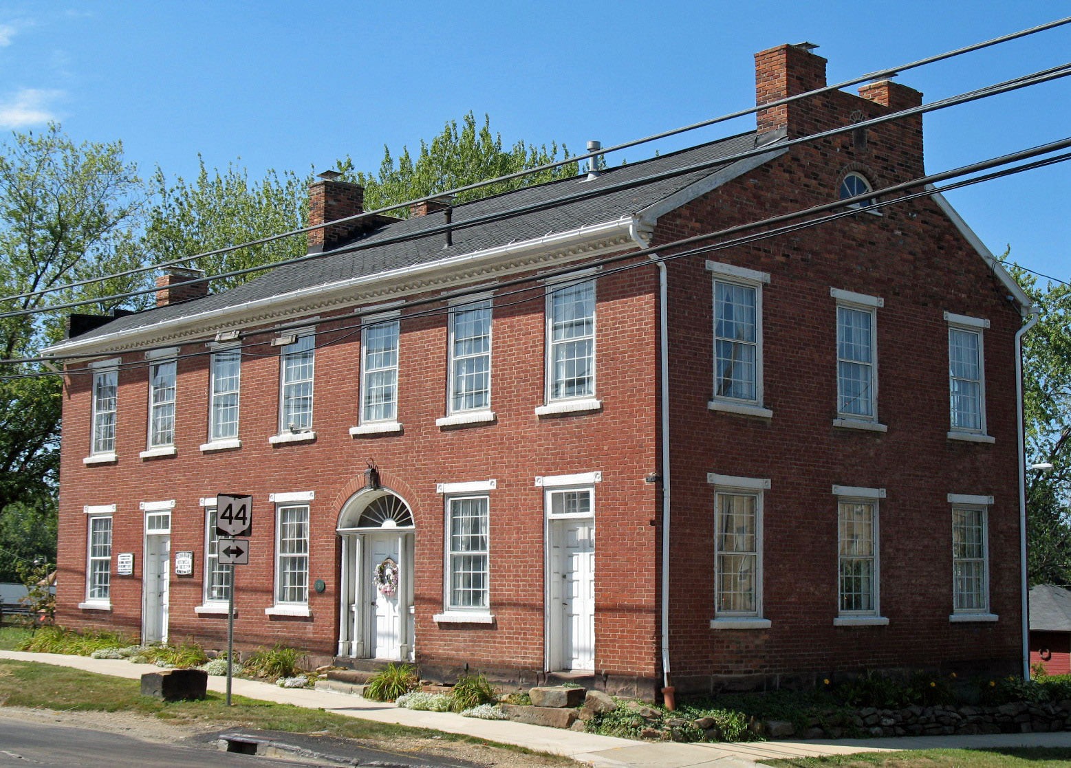 Registered Historic Places in Stark County, Ohio. Werner Inn, 131 E. Nassau St., East Canton, Ohio, USA. Photographed 2008-08-25 from the southeast corner of Wood and Nassau Sts.